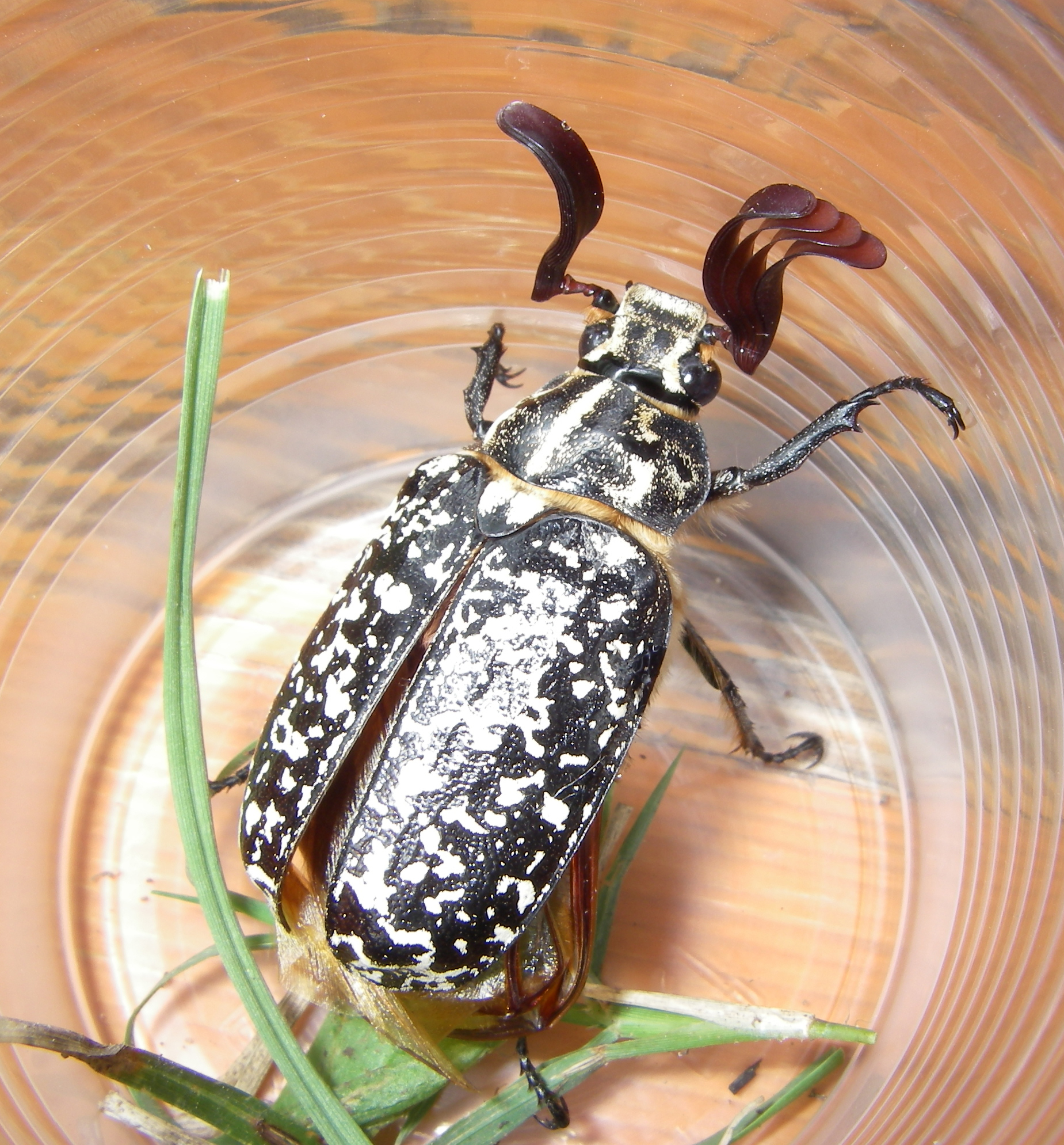 Polyphylla fullo specimen